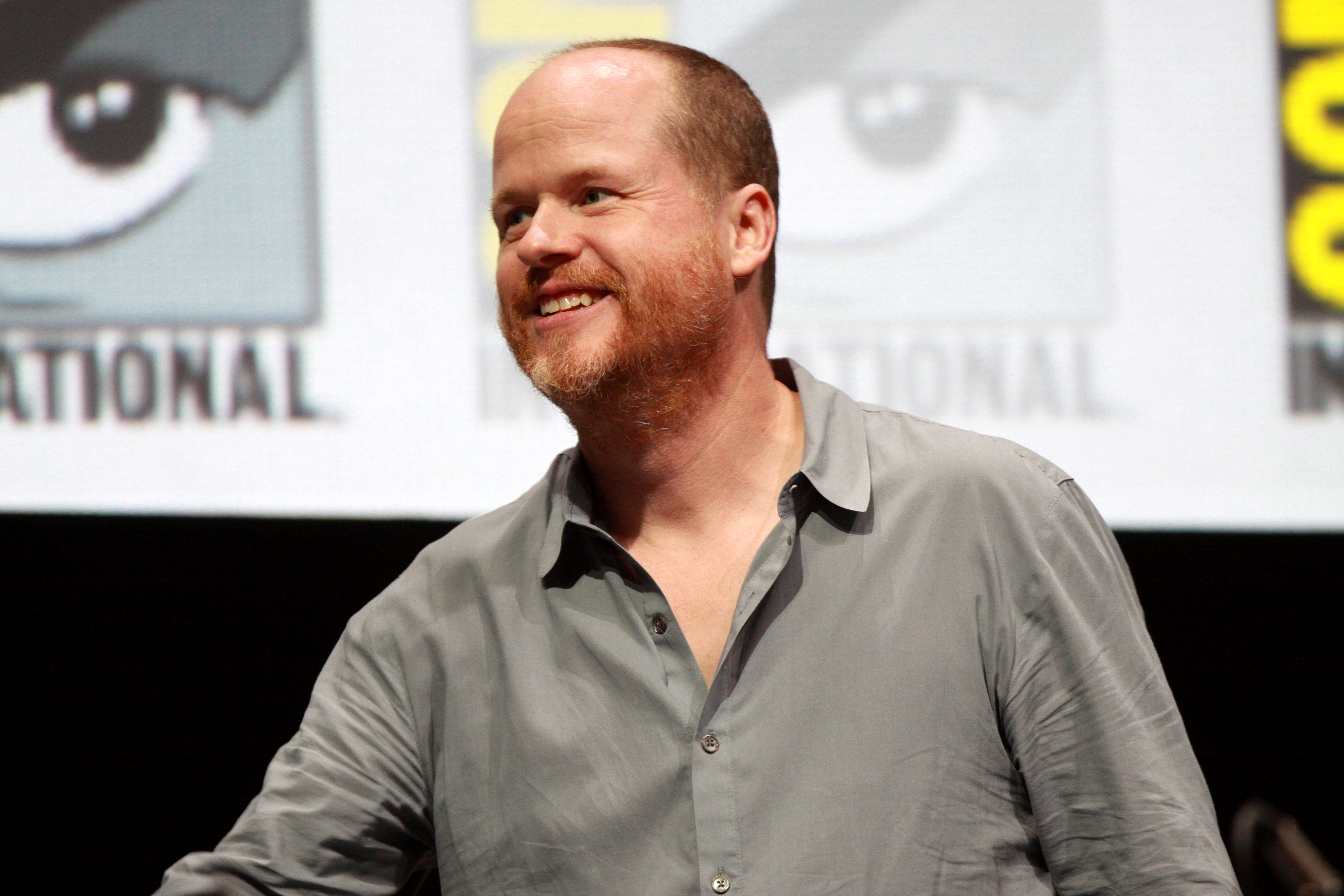 Joss Whedon speaking at the 2013 San Diego Comic Con International, for "The Avengers: Age of Ultron", at the San Diego Convention Center in San Diego, California.